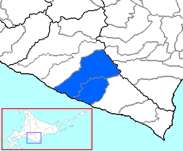 from 'Erimo_in_Hidaka_Subprefecture.gif'